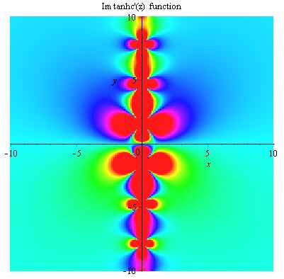 Tanhc'(z) Im plot